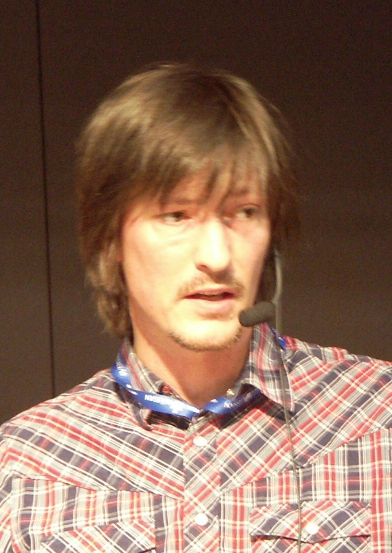 Rikard Warlenius, swedish journalist